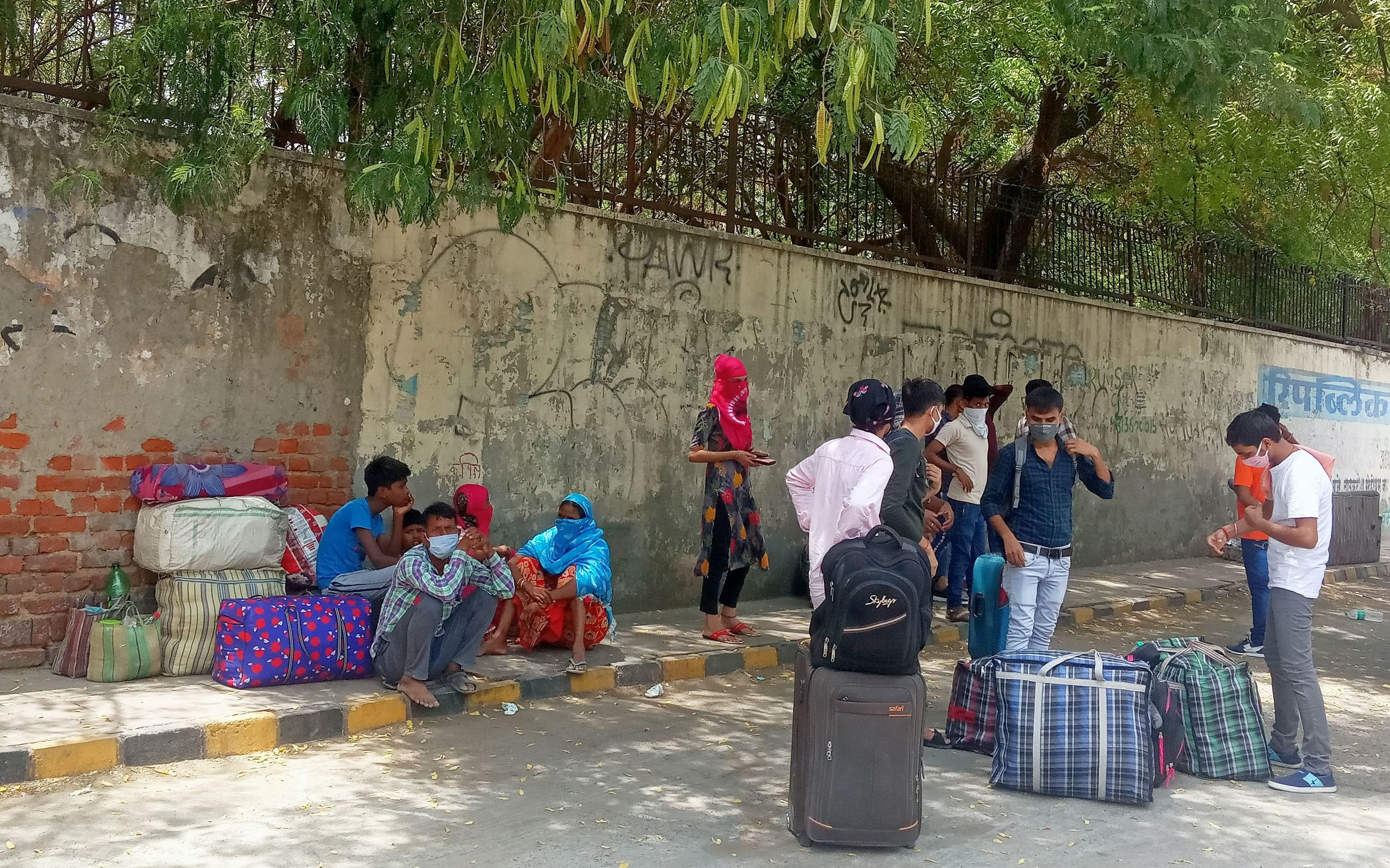 Stranded migrant workers during fourth phase of the lockdown because of COVID-19 pandemic in Delhi, taking rest on the way to their village near New Delhi railway station